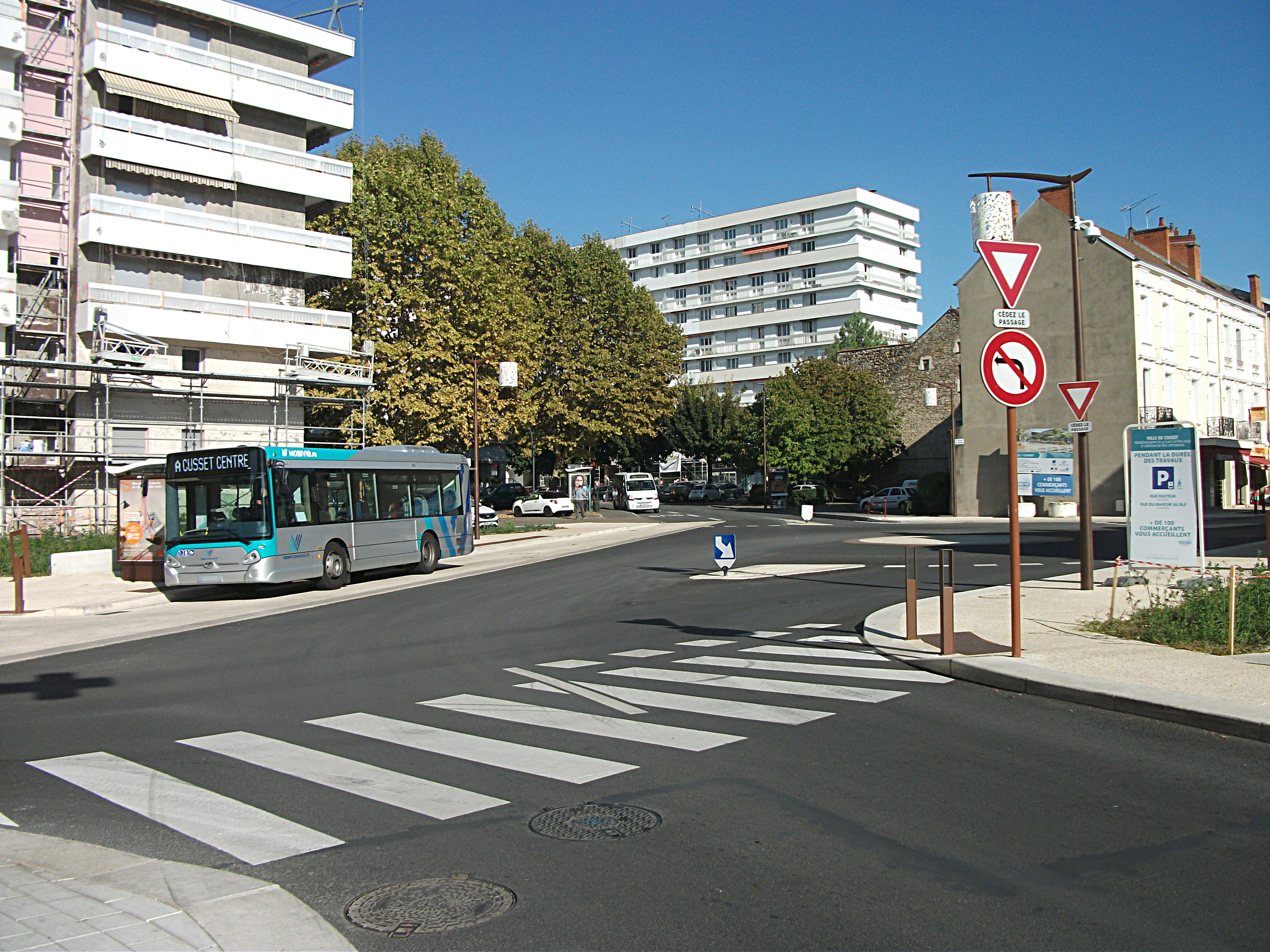 The new Pôle d'Échanges Intermodal of Cusset, Allier, Auvergne-Rhône-Alpes, France, with a Heuliez GX 137 bus stopped at Cusset Centre stop. Picture taken from Rue de Liège.